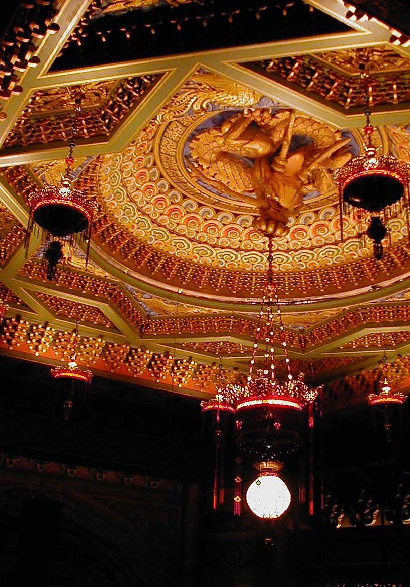 Caisson (coffer) centerpiece in the auditorium of the 5th Avenue Theatre, Seattle, Washington